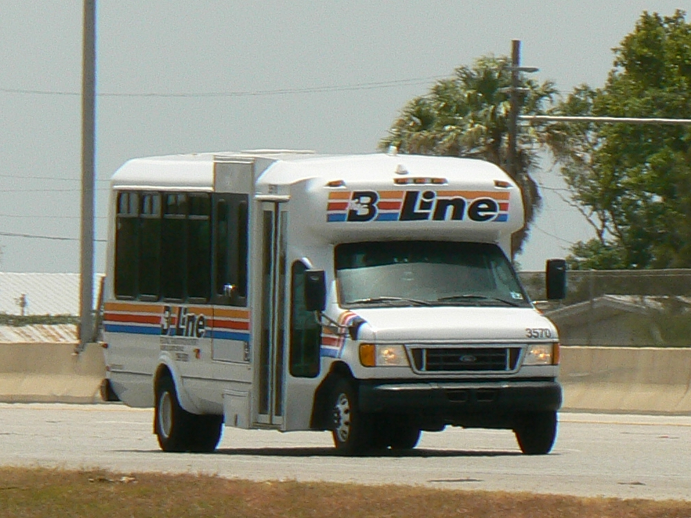 Corpus Christi Regional Transportation Authority - B-Line vehicle